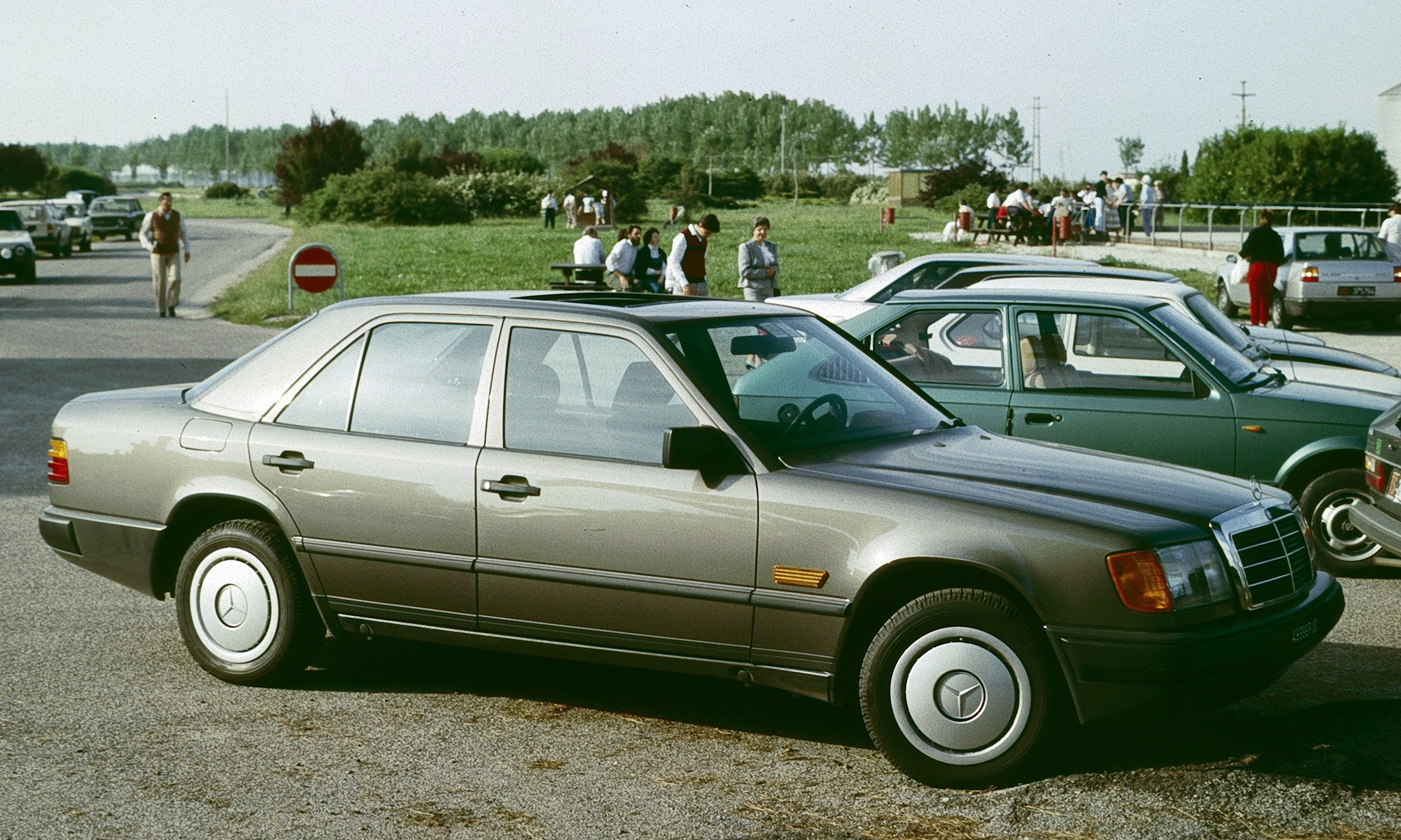 Mercedes Benz W124 as first launched (pre-facelift)